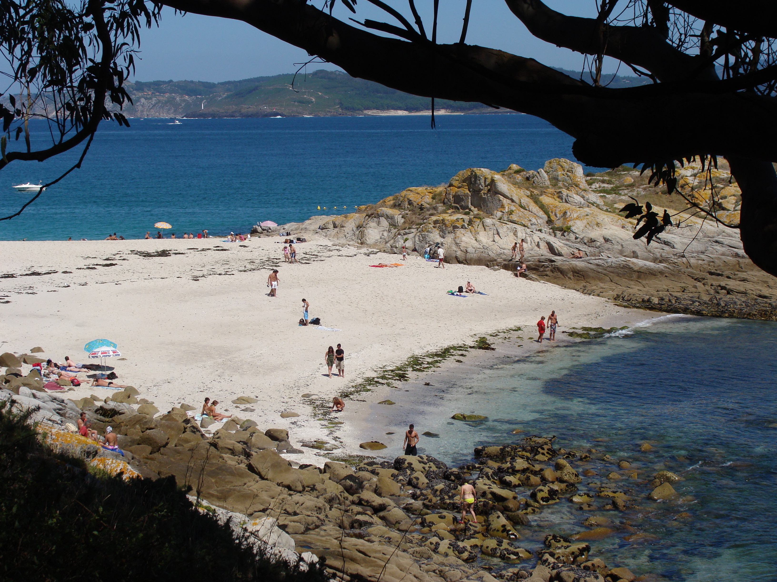 Beach of Wines, in Cíes Islands, Pontevedra, Galicia, Spain.